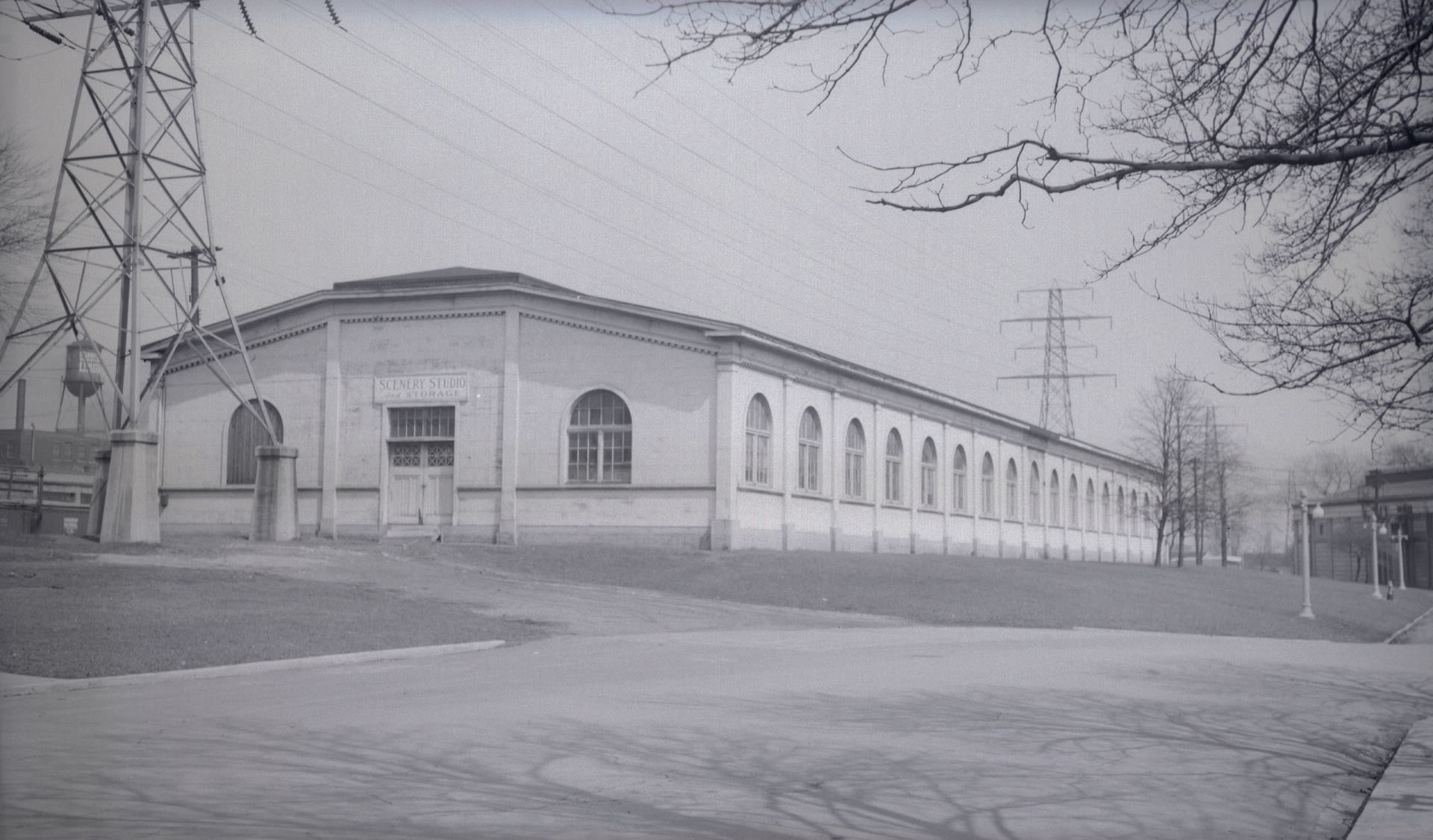 View from southwest in 1952